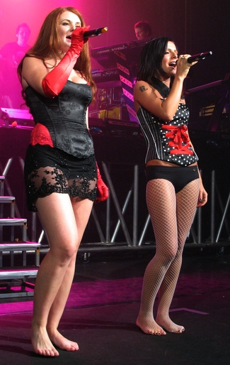 t.A.T.u. Bacardi B-LIVE in Moscow